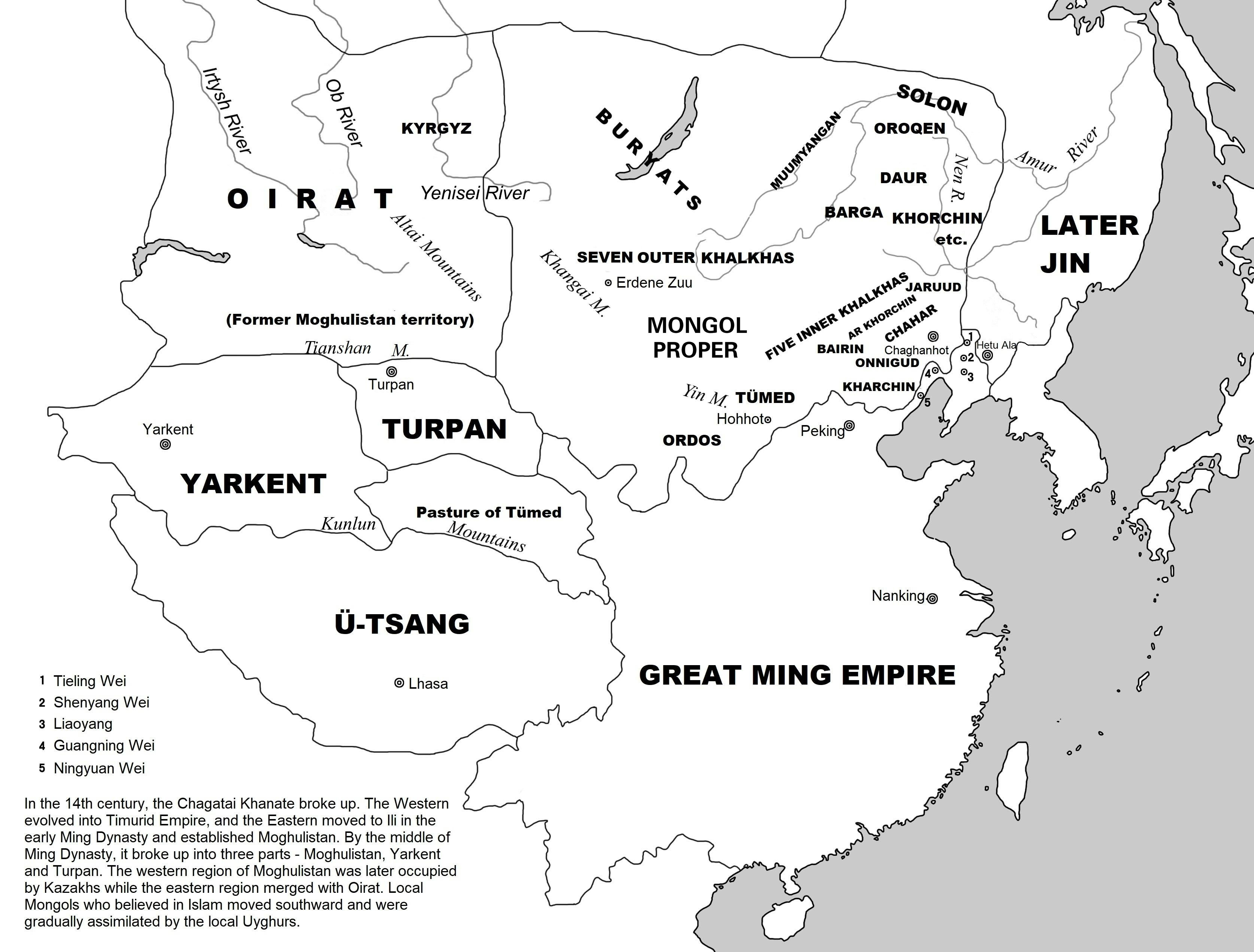 Emipres of Ming, Jurchen (Later Jin), Mongol, Oirat, Upper Mongols (Kokonur, Qinghai), Chagatai Khanate (Yarkent Khanate), Turfan circa 1616